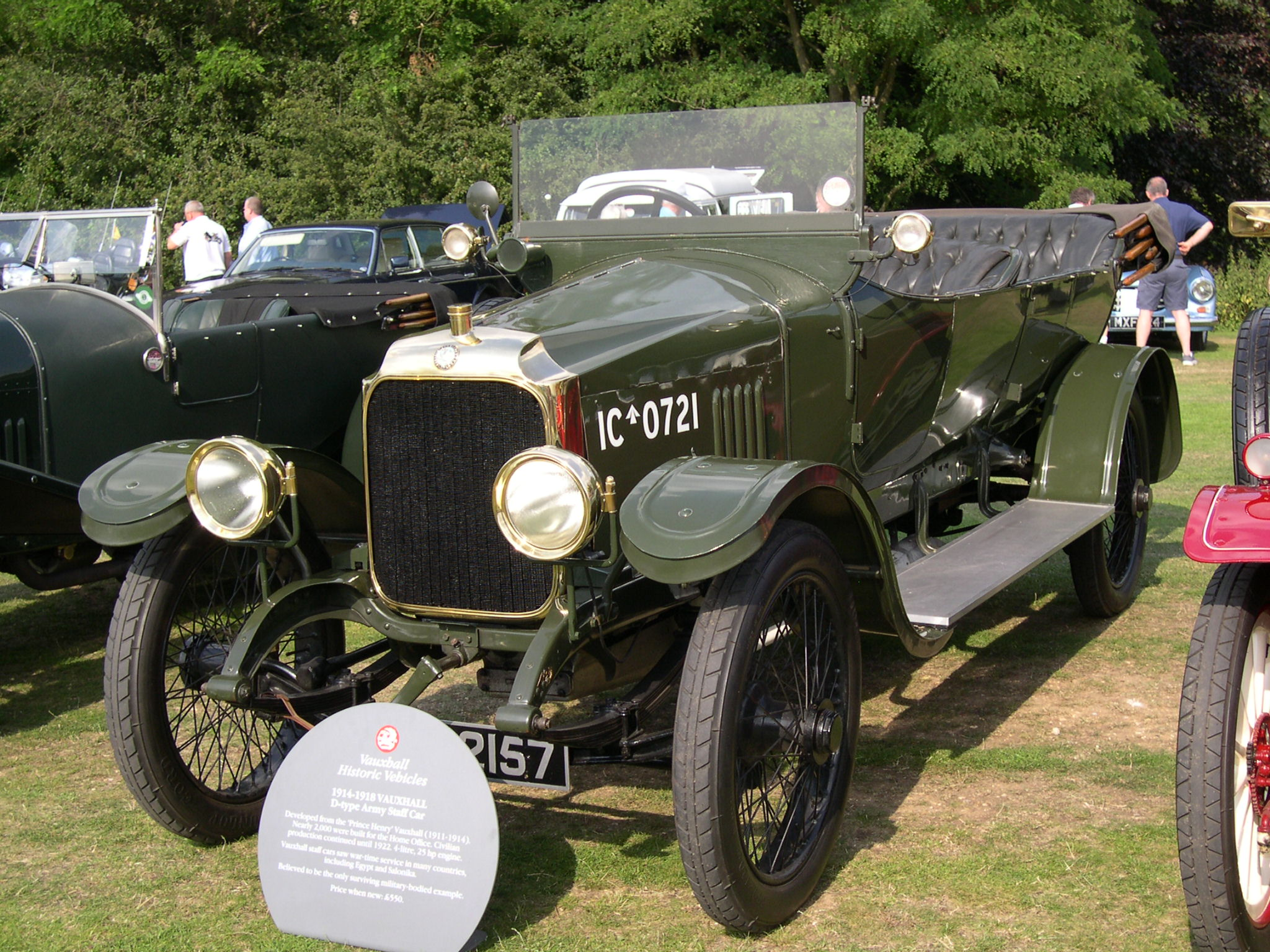 1914 Vauxhall D-type Staff Carbelieved to be the only remaining example Text of sign in front of car Vauxhall Historic Vehicles 1914-1918 VAUXHALL D-type Army Staff Car Developed from the 'Prince Henry' Vauxhall (1911-1914) Nearly 2,000 were built for the Home Office. Civilian production continued until 1922. 4-litre, 25 hp engine. Vauxhall staff cars saw war-time service for many countries including Egypt and Salonika Believed to be the only surviving military-bodied example Price when new £550